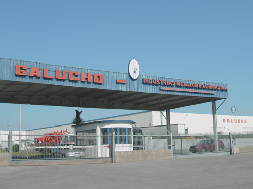 Agricultural Machinery Factory in Sintra.